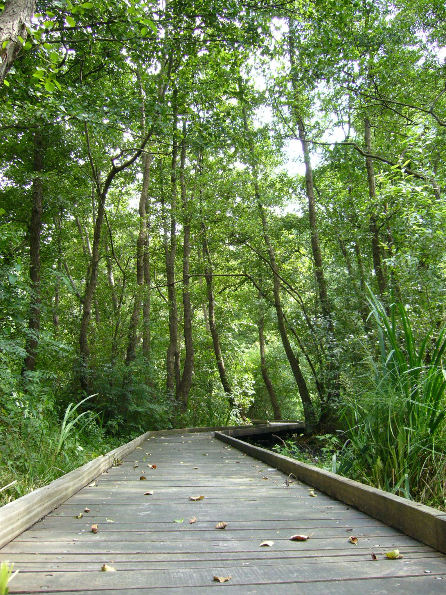 Marshland Hooglandsedijk, Amersfoort(Netherlands) with alder trees; Location/Date Marshland Hooglandsedijk, Amersfoort, Netherlands, 2007/07/21 Taken with Panasonic Lumix DMC-FX3 Original picture 1536 x 2048 pixels Photographer Wilma Verburg Conditions Please inform the photographer before using this image outside Wikimedia.